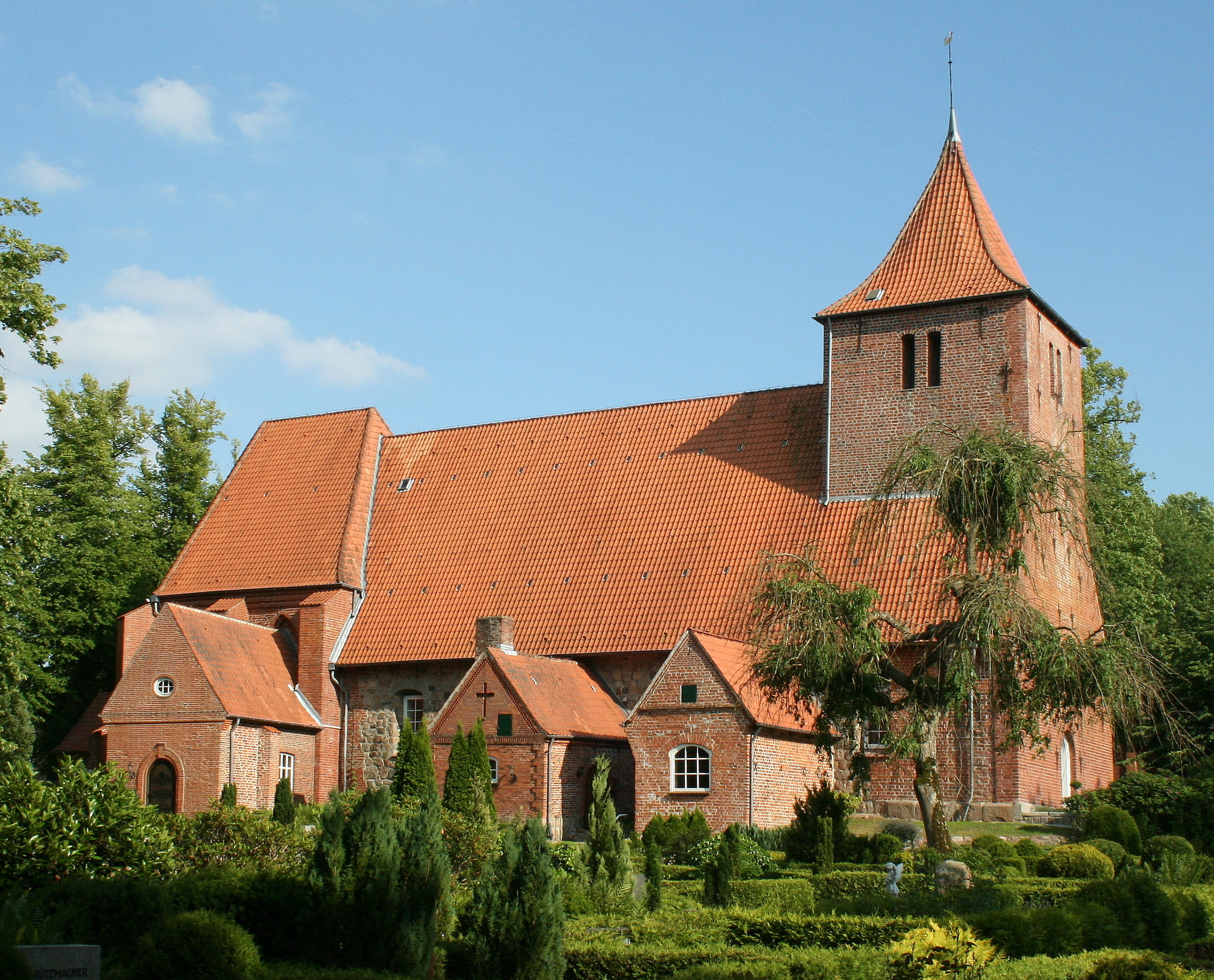 St. Catharinen church in Westensee, taken from the West